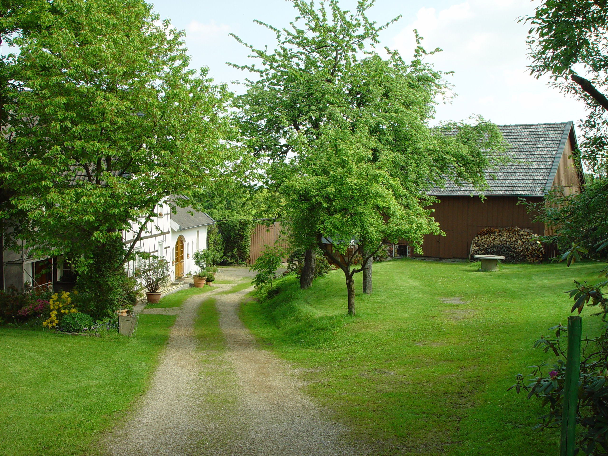 Wuppertal-Kloppwamms